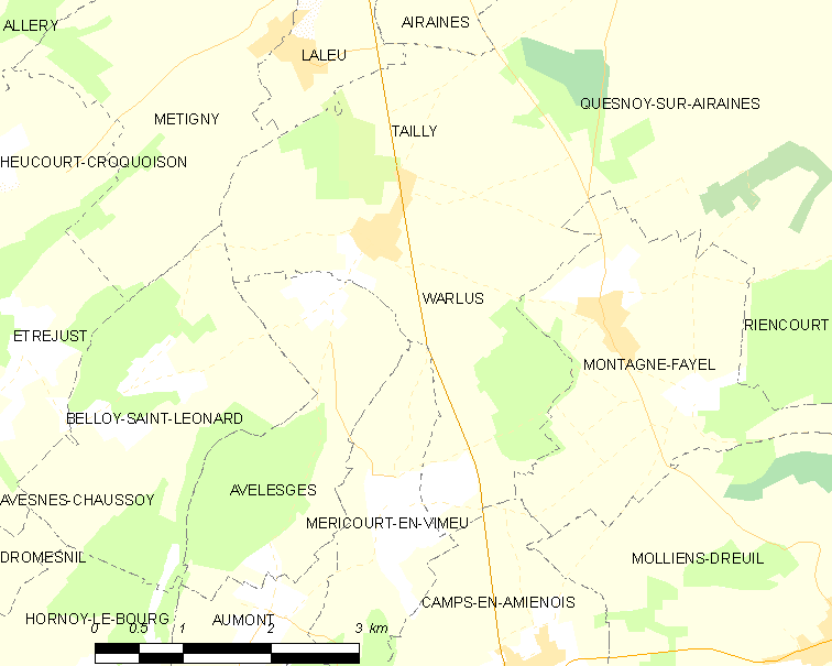 Map of French municipality Warlus